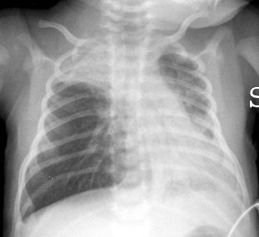 A chest radiograph demonstrating lung hyperinflation with a flattened diaphragm and bilateral atelectasis in the right apical and left basal regions in a 16-day-old infant.